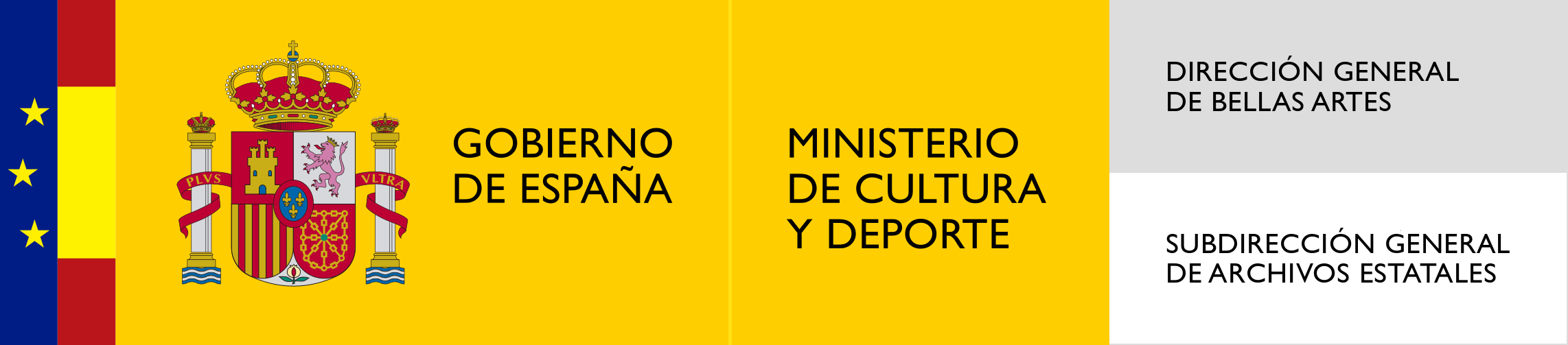 Logo of the Deputy Directorate-General of State Archives of the Government of Spain.